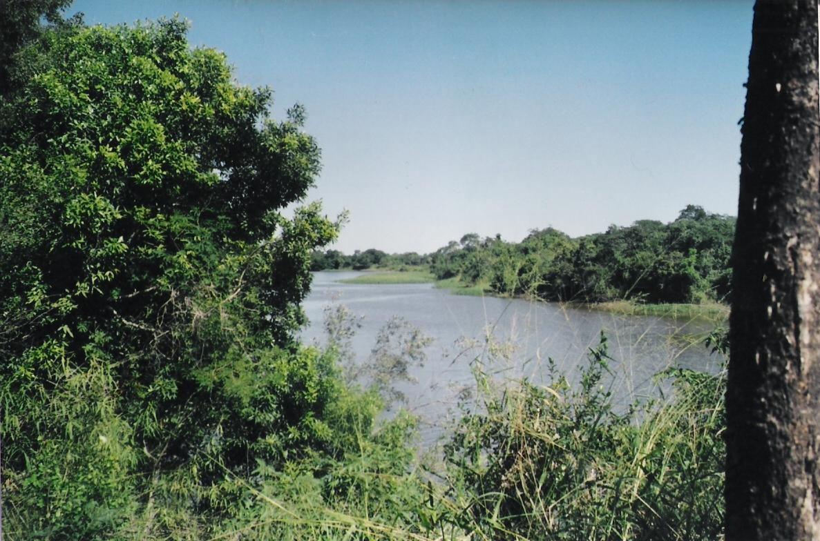 Río Negro (Black River) in Villa Fabiana, a borough in Resistencia, Chaco, Argentina. You can see Chaco's forest and a typical turn of a plateau river.